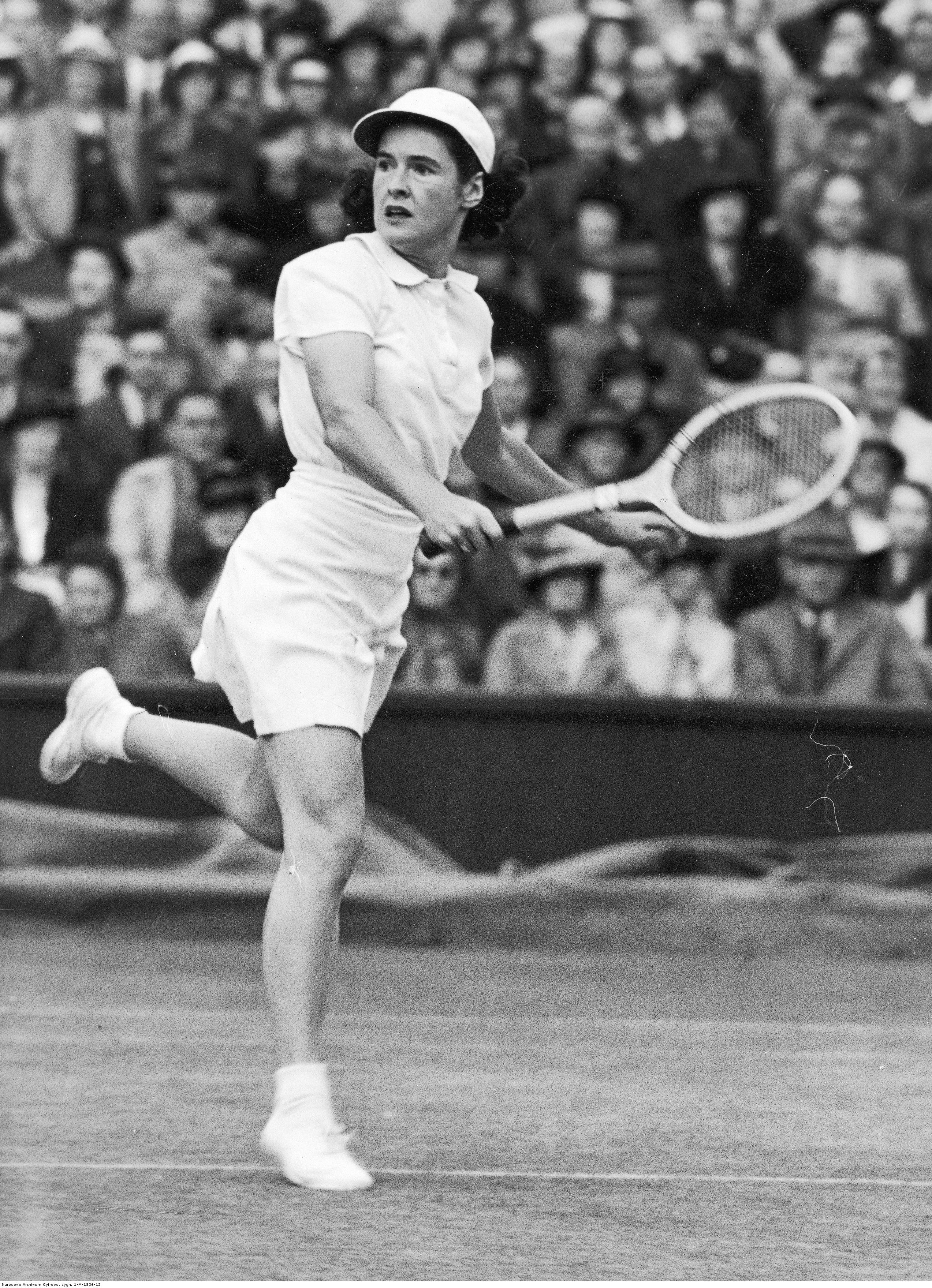 American tennis player Sarah Fabyan at the Wimbledon Championships